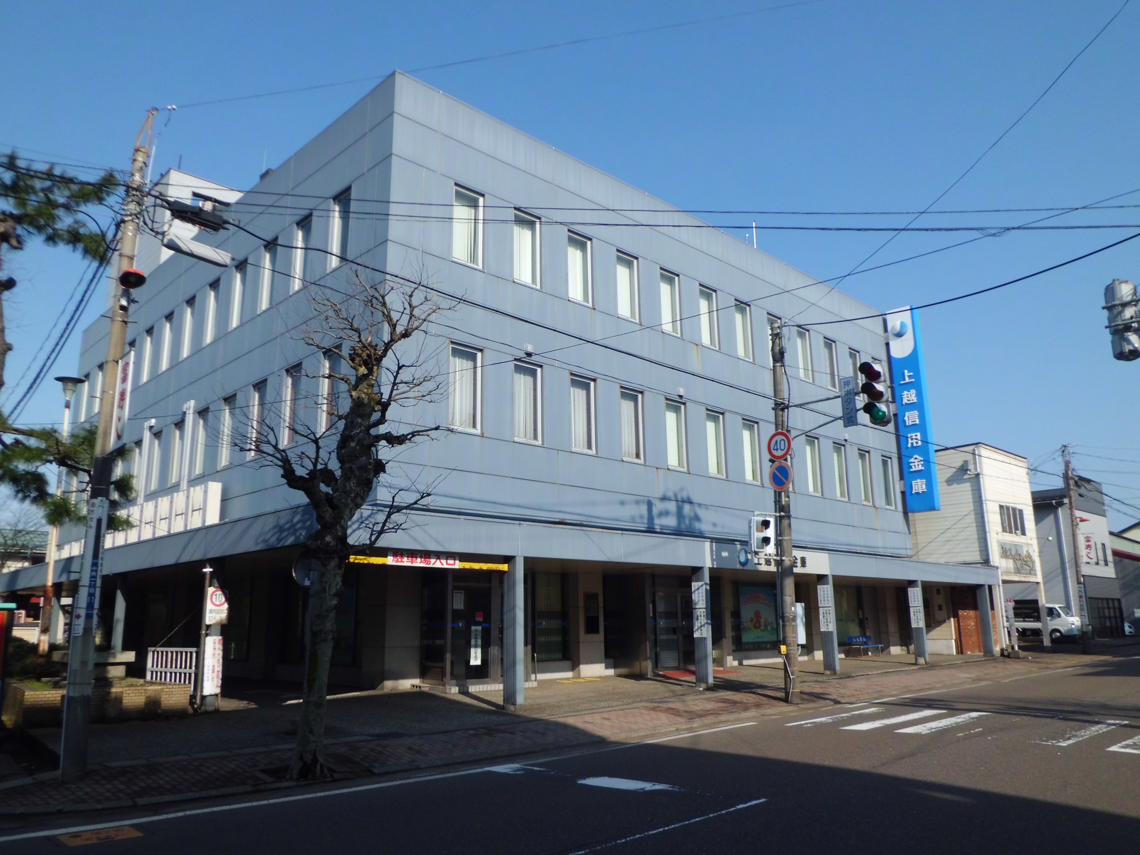 Head office of Joetsu Shinkin Bank